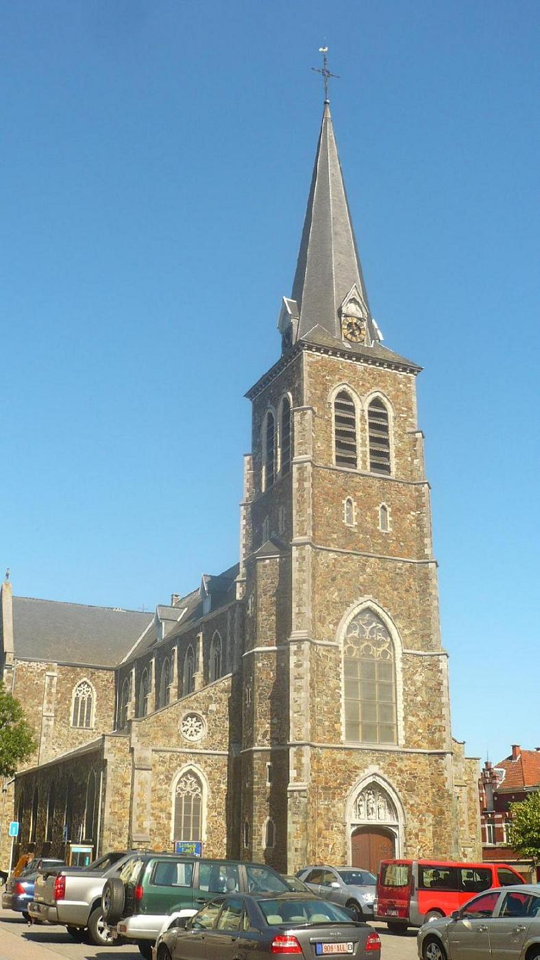 Lembeek church